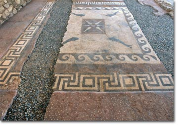 Greek mosaic in the archeological site of Buccino (Ancient Volcei), in Salerno's province